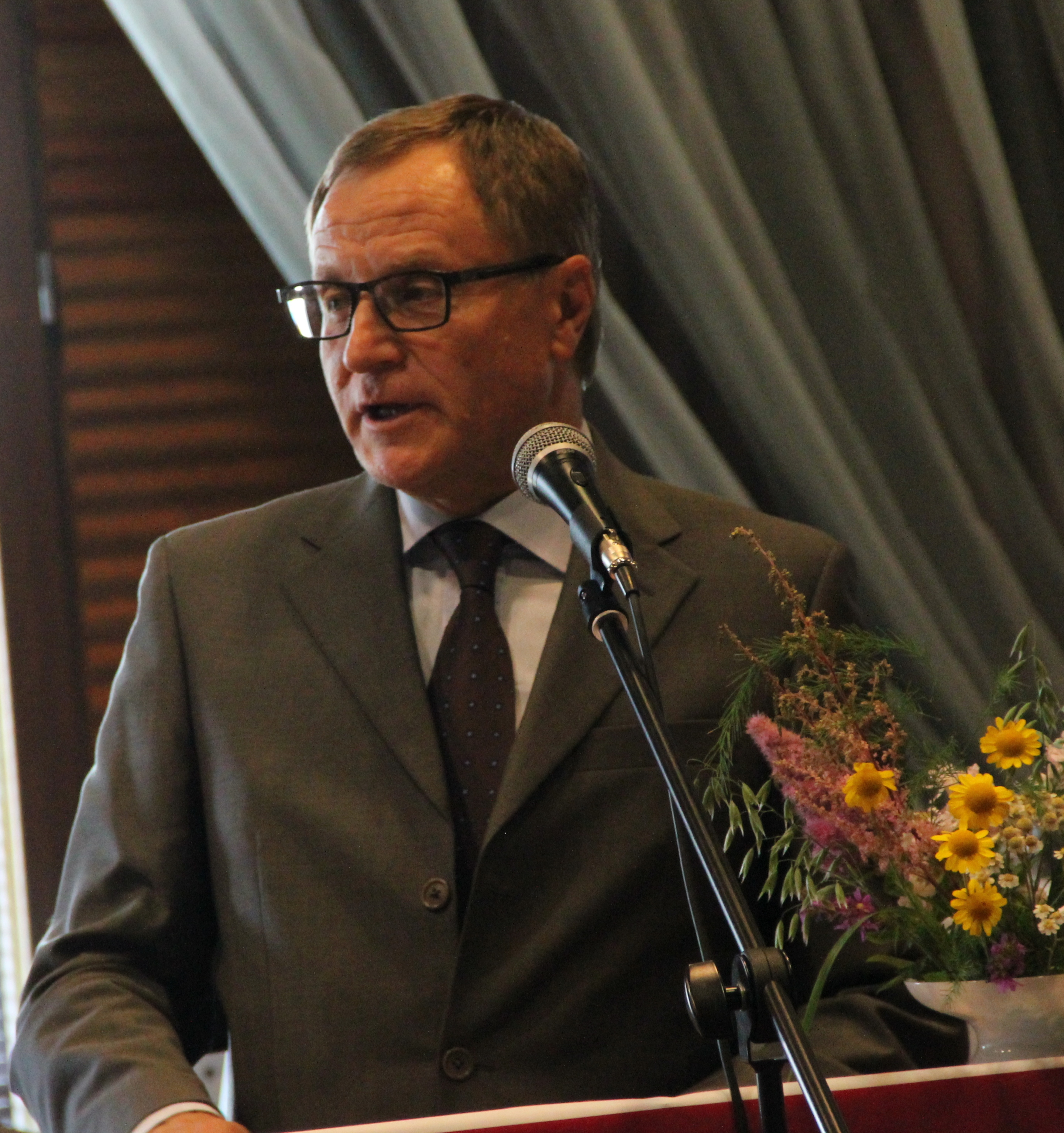 the Finnish Ambassador to Moscow, in 2013